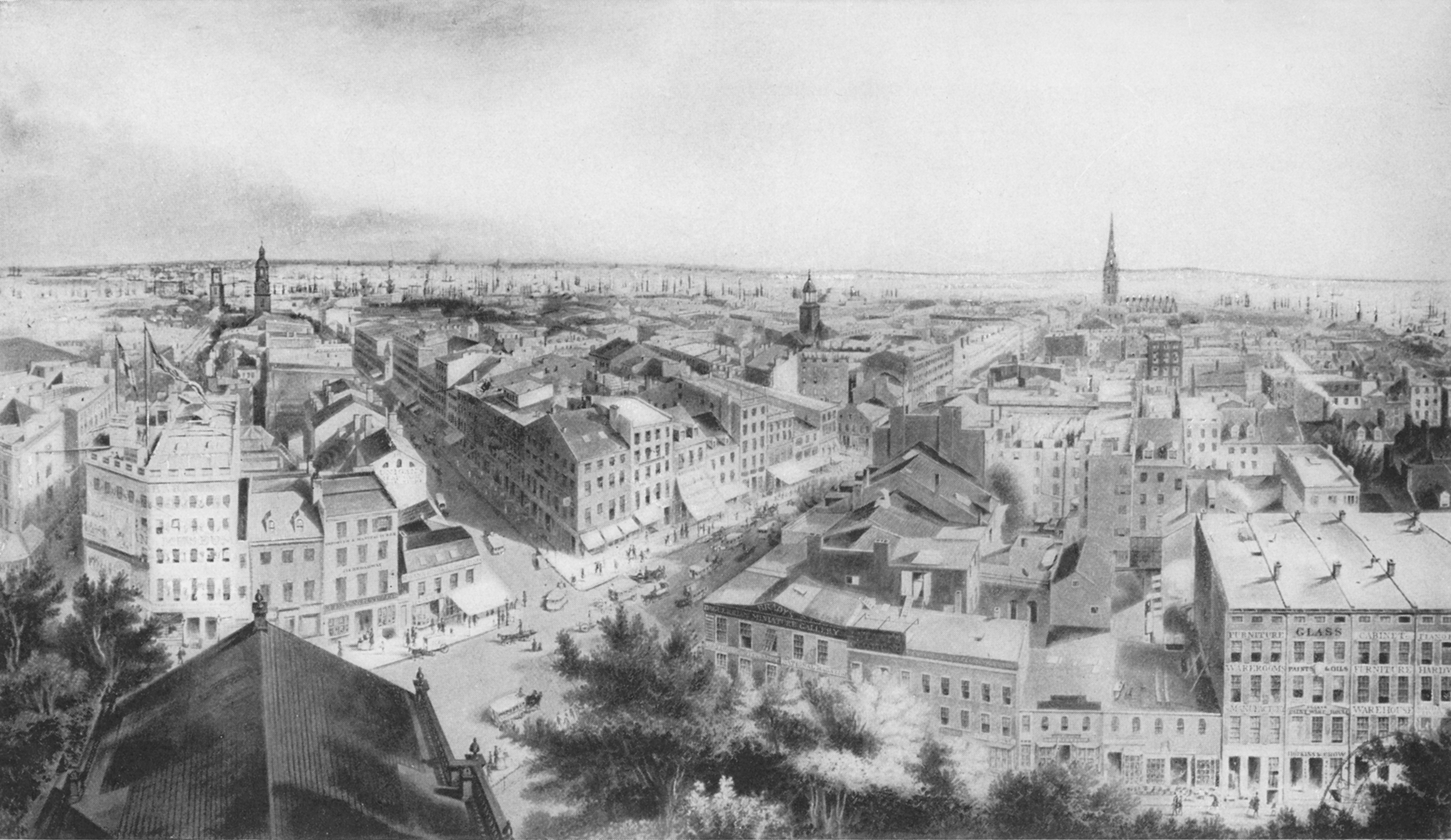 Black and white engraving of New York City in 1854 as viewed from the steeple of St. Paul's Church